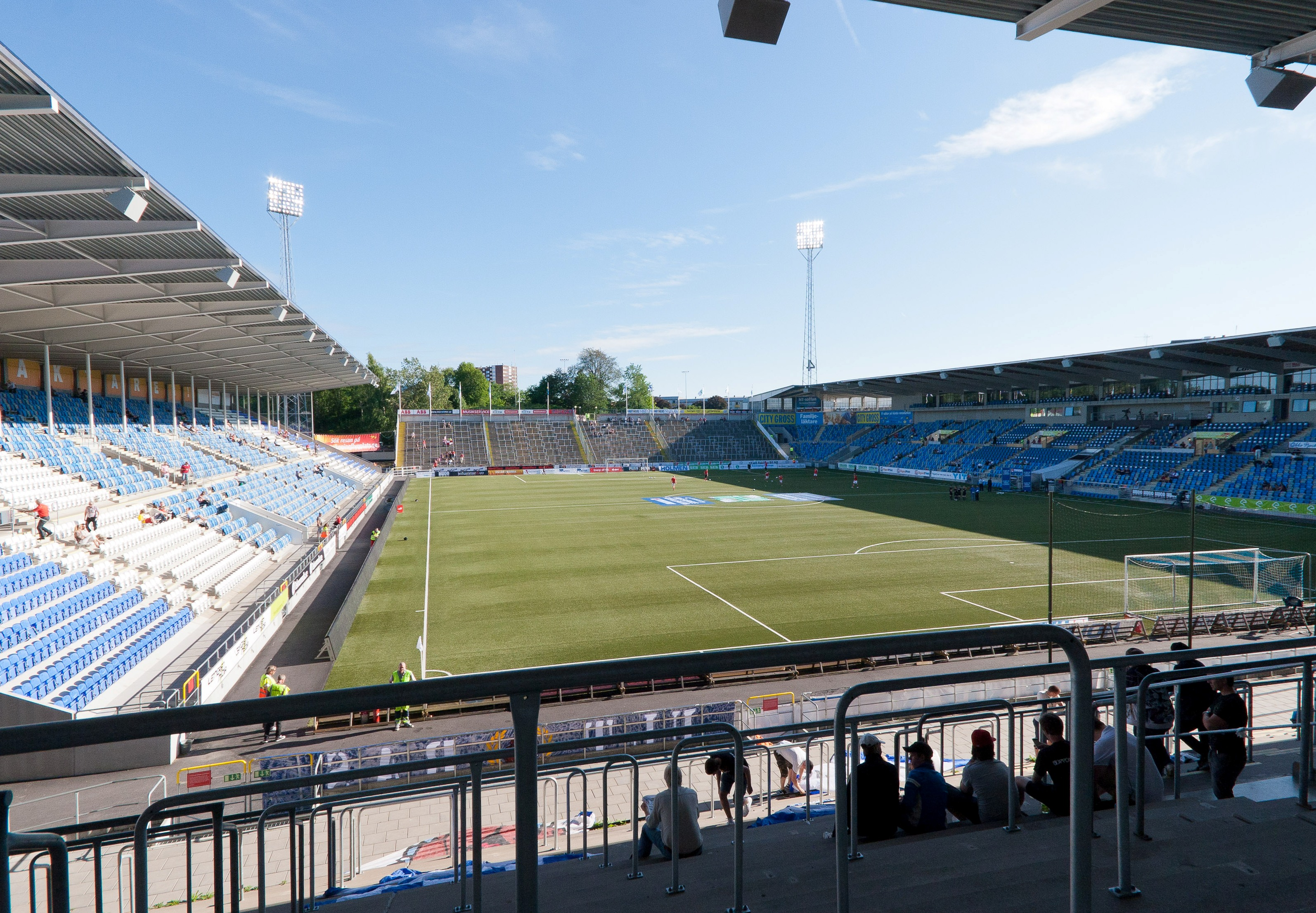 A view over Nya Parken football arena in Norrköping, Sweden. To the left, Östra Läktaren (the East Stand), in the center Södra Läktaren (the South Stand) with the Away team section to the left. To the right the VM-läktaren (the WC Stand). In the foreground the Norra Läktaren (the North Stand) with the home team section.